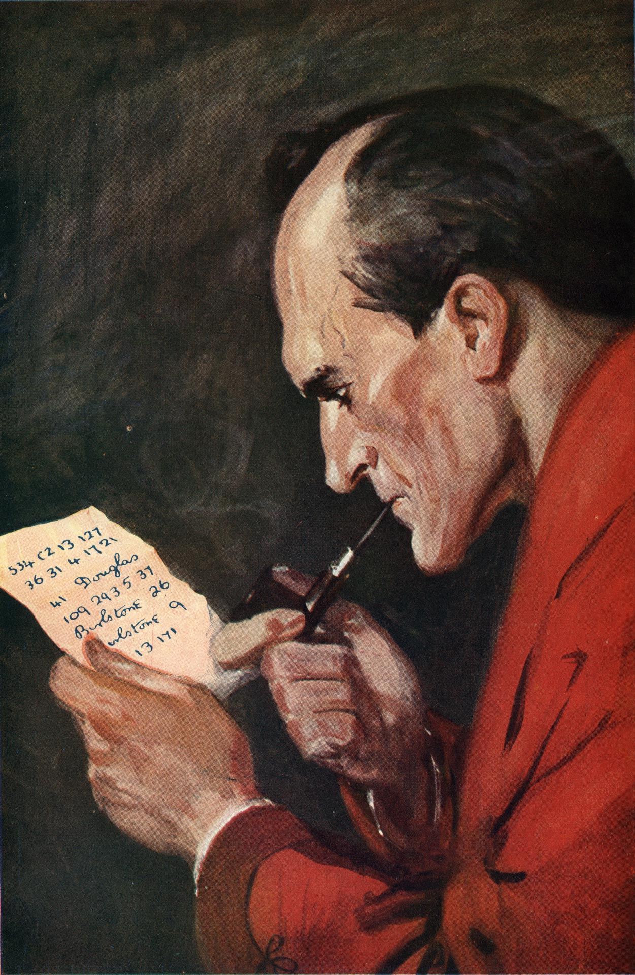 We invite you to enter the gallery, get to know Holmes better, and decide for yourself. Rare and unusual books, manuscripts, artwork and more from the Toronto Public Library's Arthur Conan Doyle Collection will take you on your own adventure into the mysterious world of Sherlock Holmes. Come, the game is afoot! The [#// TD Gallery]at the Toronto Reference Library features Adventures with Sherlock Holmes from January 5 to March 10, 2013. Admission is free. Title: Creator: The Strand Magazine Date: Published: Identifier: jb2_The_Strand_pg_240_RED_image Format: Rights: Public domain Courtesy: Toronto Public Library This image is part of the Adventures with Sherlock Holmes show at the TD Gallery (Toronto Reference Library, 789 Yonge St. M4W 2G8), on display January 5 to March 10, 2013. This image is available from the Toronto Public Library under the reference number jb2_The_Strand_pg_240_RED_imageThis tag does not indicate the copyright status of the attached work. A normal copyright tag is still required. See Commons:Licensing. English | français | +/−